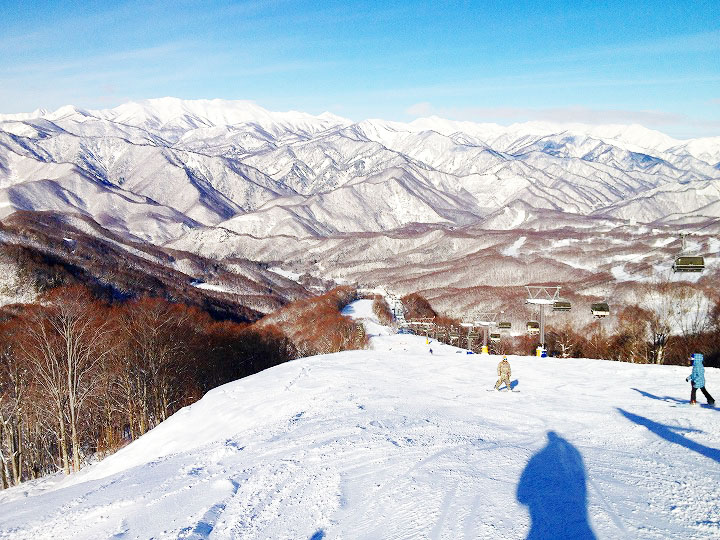 Minakami Hodaigi Ski Area in Minakami Town, Gunma Prefecture, Japan